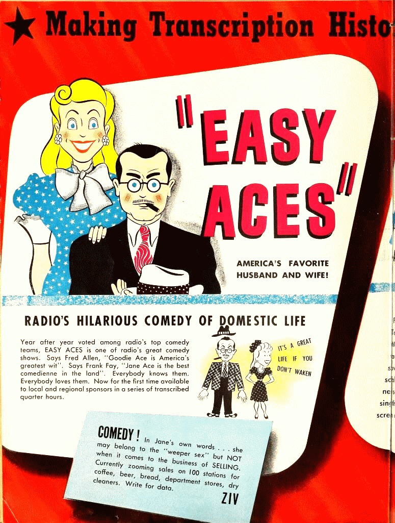 Easy Aces was a popular radio program, that was syndicated by the ZIV Company to individual stations via high quality phonograph records that were commonly known as "electrical transcriptions".